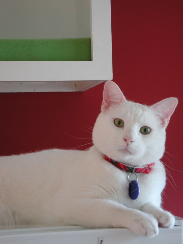 White American Shorthair female cat Mousche